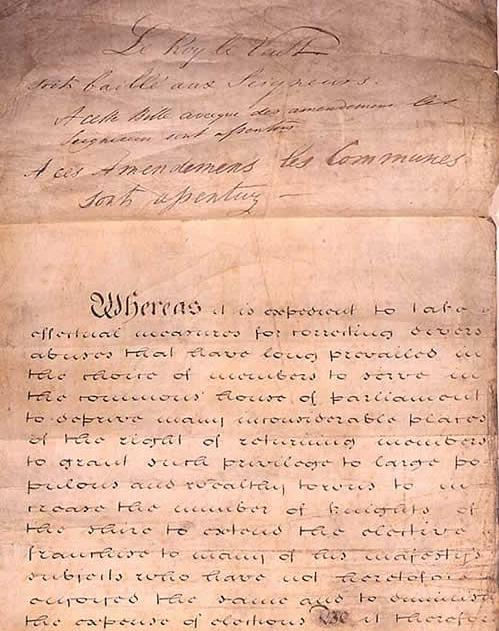 First page of Reform Act 1832. The record of the king's royal assent is written above the bill and reads in full Le Roy le Veult soit baillé aux Seigneurs. A cette Bille avecque des amendemens les Seigneurs sont assentuz. A ces Amendemens les Communes sont assentuz.